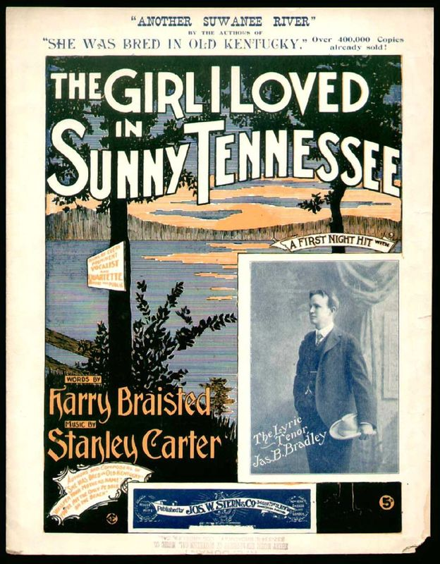 Sheet music cover of The Girl I Loved in Sunny Tennessee by Harry Braisted and Stanley Carter with "lyric tenor" Jas. B. Bradley on front.